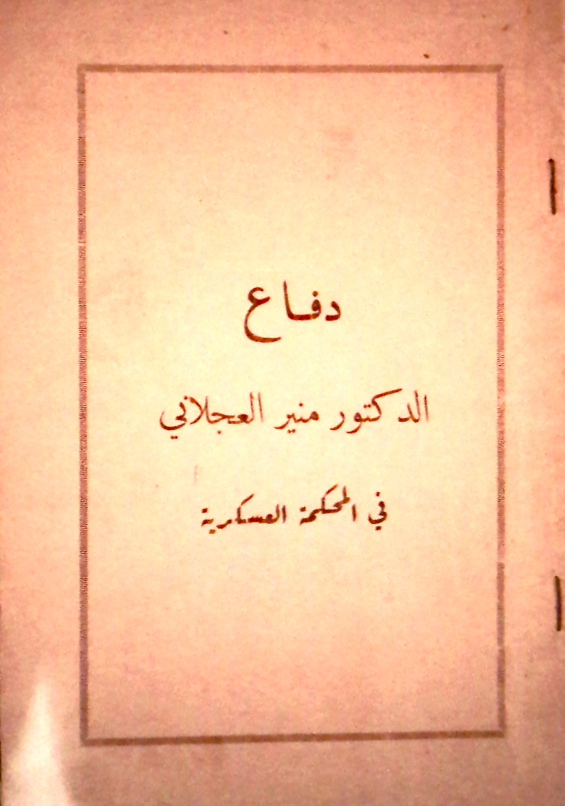 Dr Munir al-Ajlani's Defence